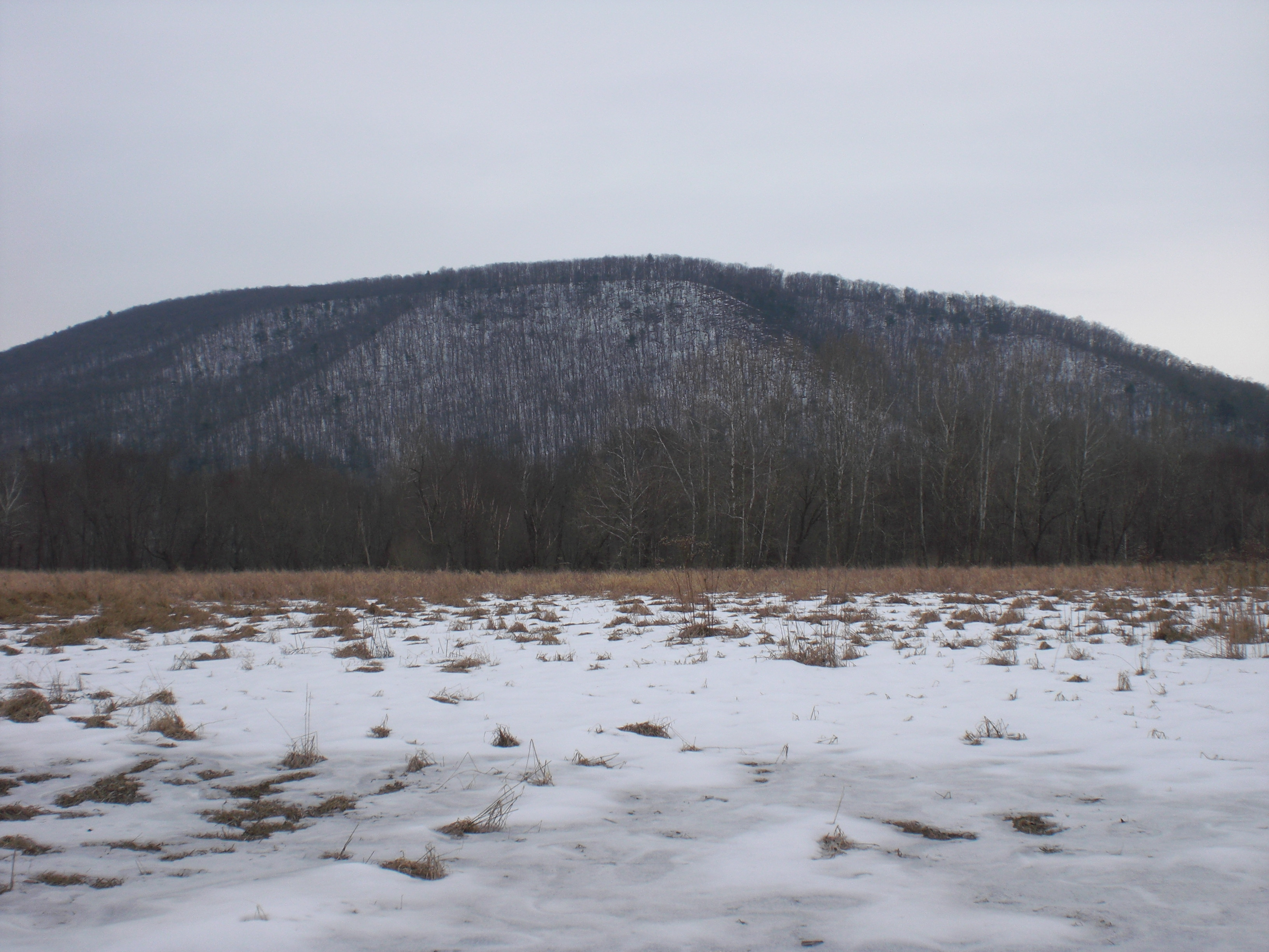 Knob Mountain (Pennsylvania) from the west at a distance of about half a mile.